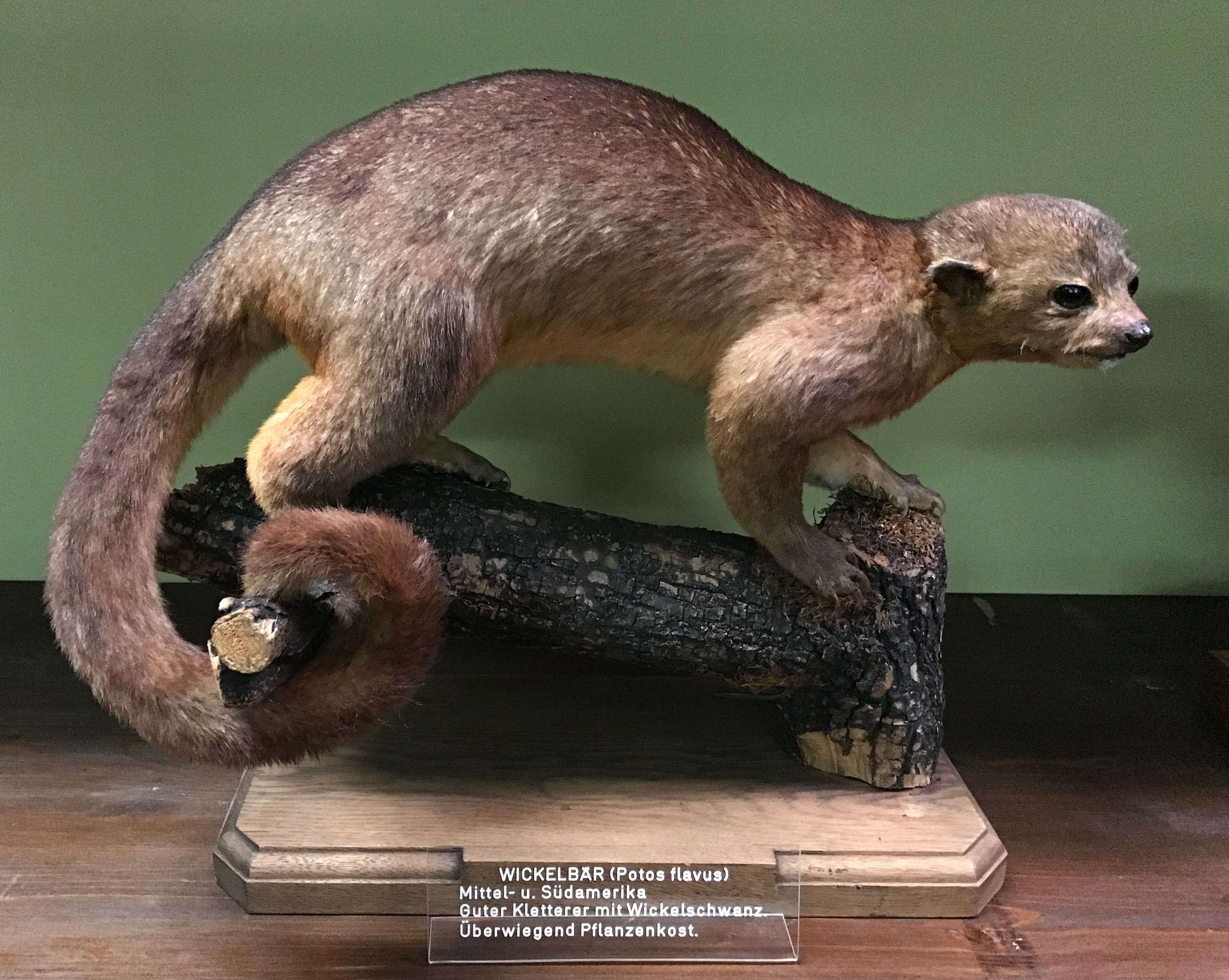 Kinkajou Potos flavus preparation of the Museum of Natural History in Vienna